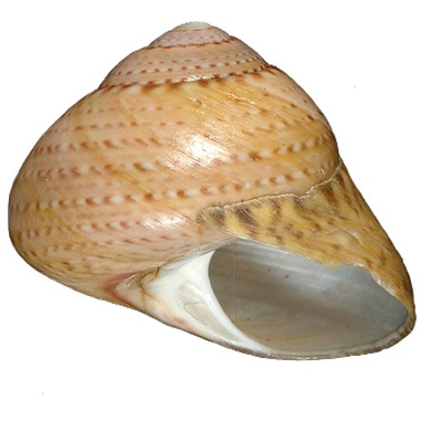 Shell of Oxystele impervia from the Western Cape, Groen Rivier, diameter 22.3 mm (NMSA E7353). Lateral view.